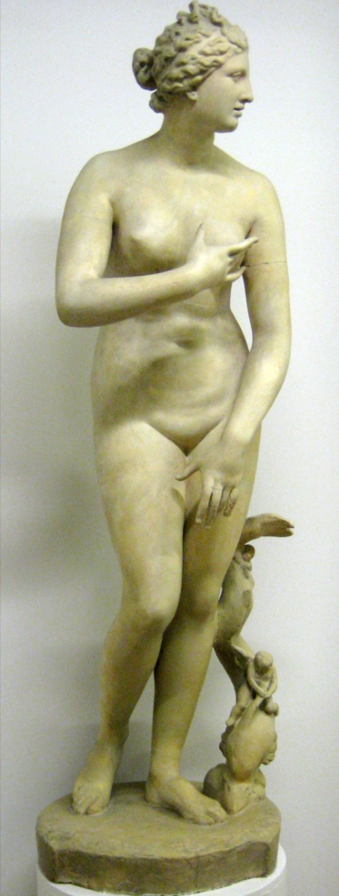 Venus Medici. Cast in Pushkin Museum, Moscow